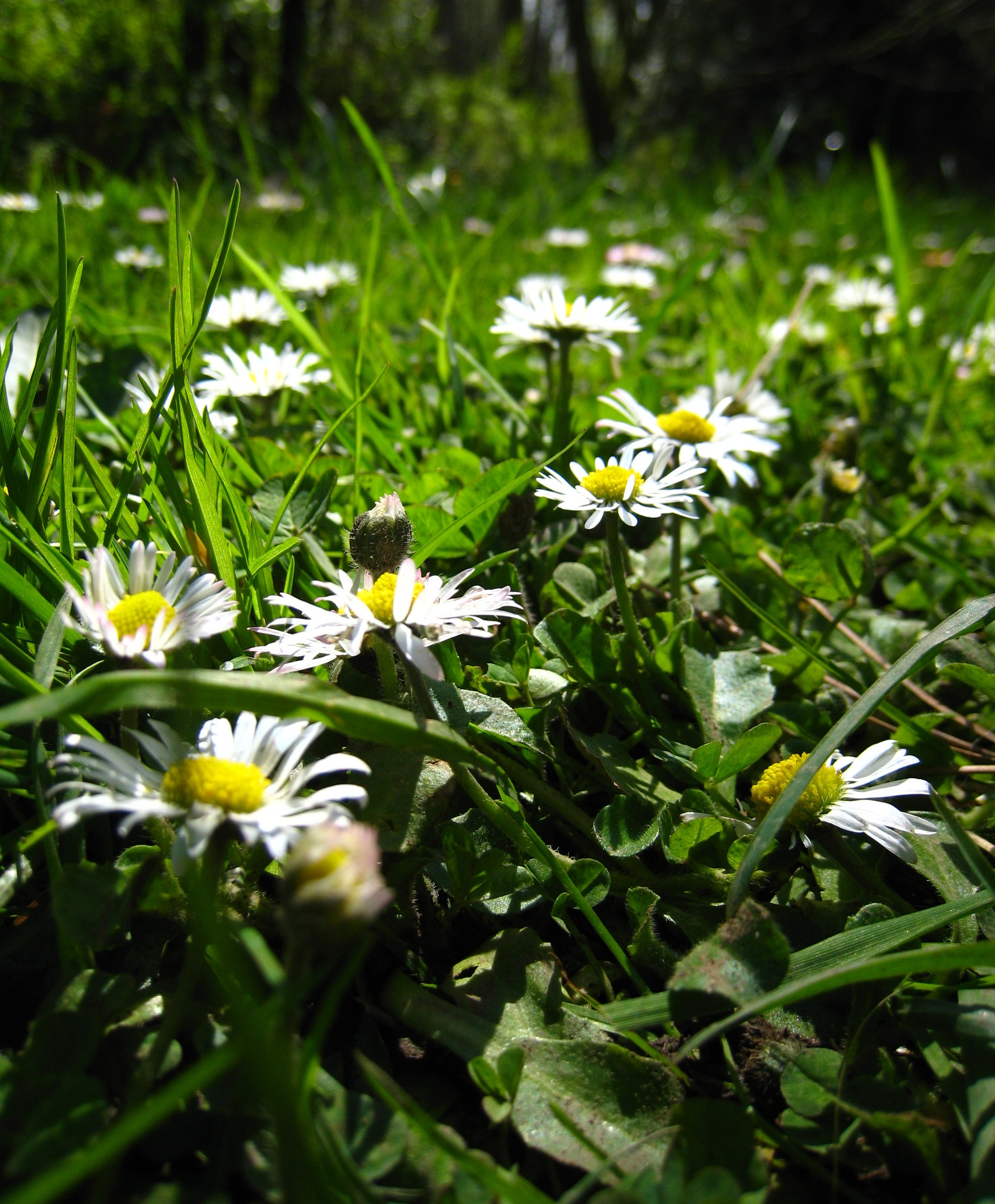 Common daisies (Bellis perennis), close-up.